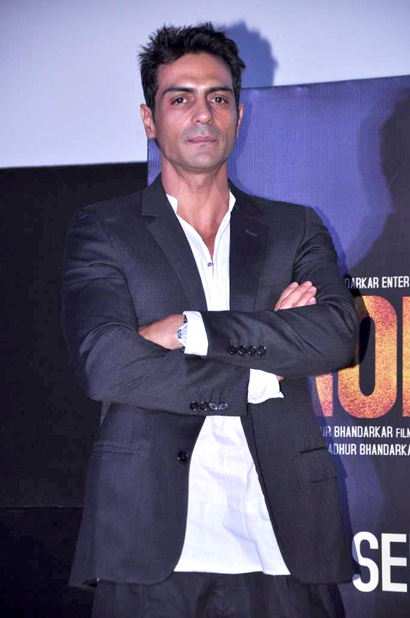 Arjun Rampal at the First look launch of 'Heroine'